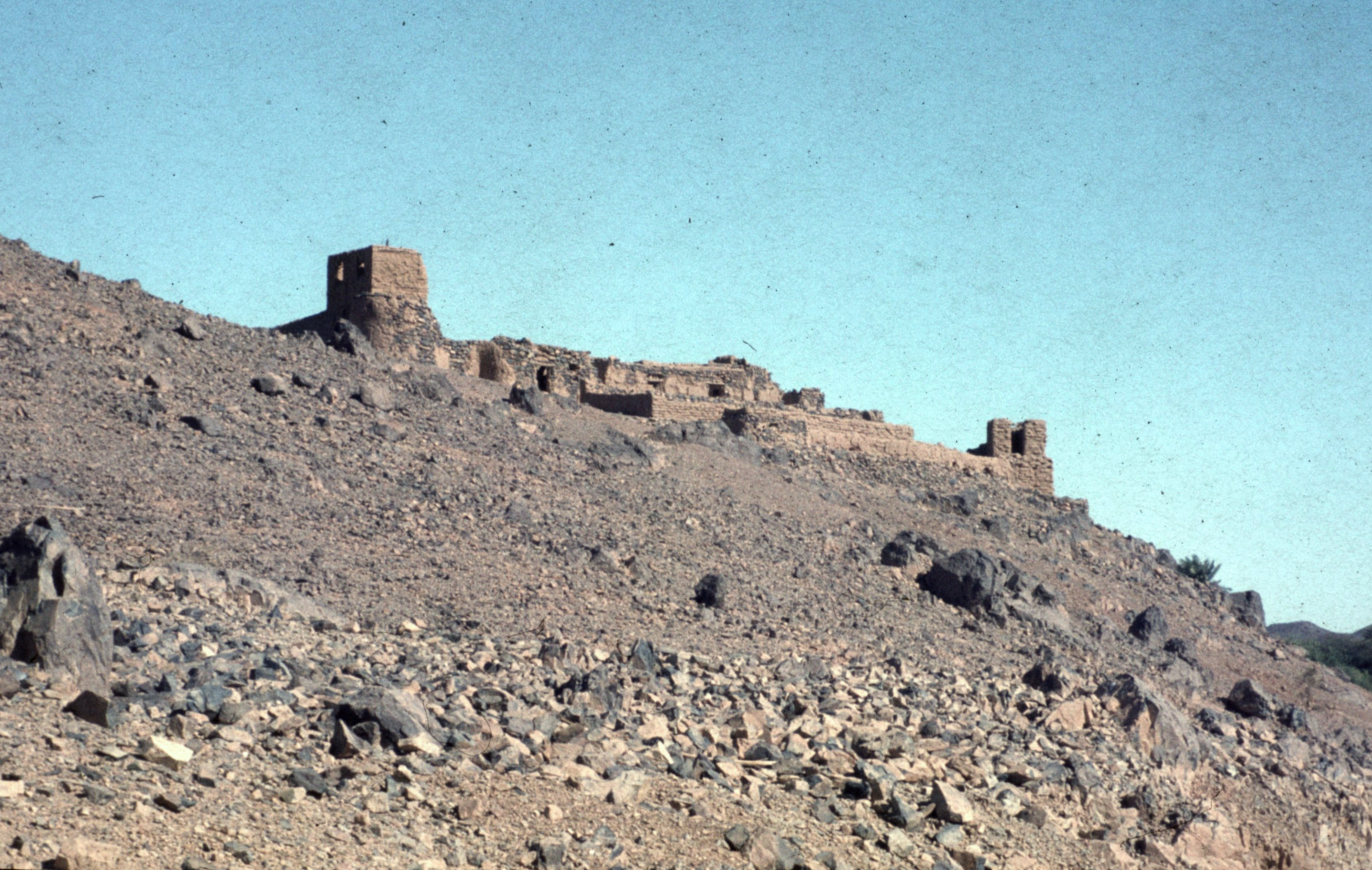 Fortress overlooking the southern entrance to Tessalit, a town in northern Mali, close to the Algerian border